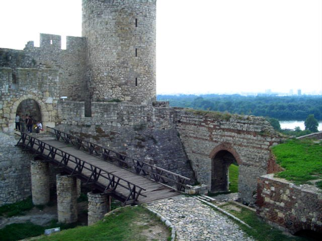 The Despot Stefan Tower in Kalemegdan Fortress, early XV century, Belgrade